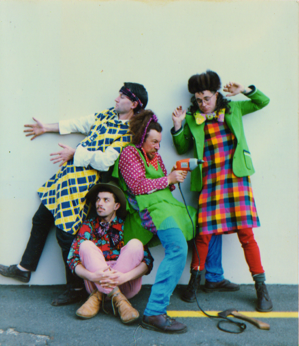 One of series of photos taken for Hamilton Press